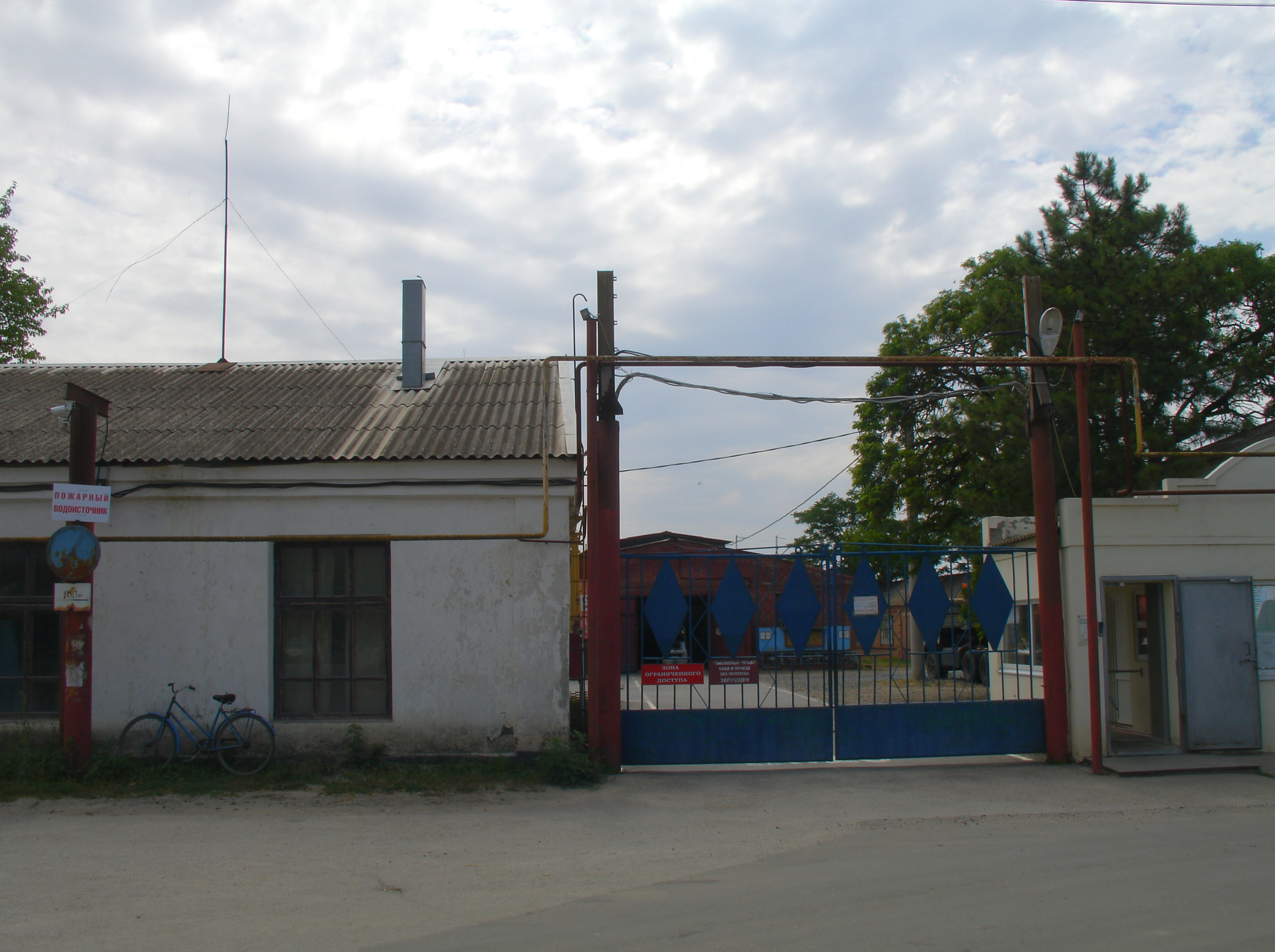 Obukhovsky shipbuilding and ship-repair plant. Zavodskaya street, Obuhovka vil., Asov District, Rostov Oblast, Russia.